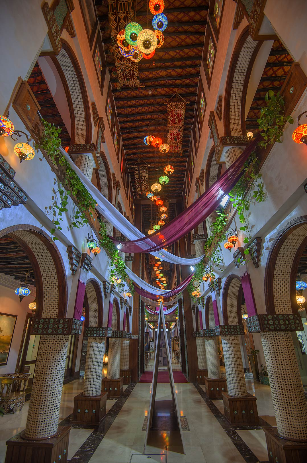 Art gallery in Souq Waqif, Doha, Qatar.